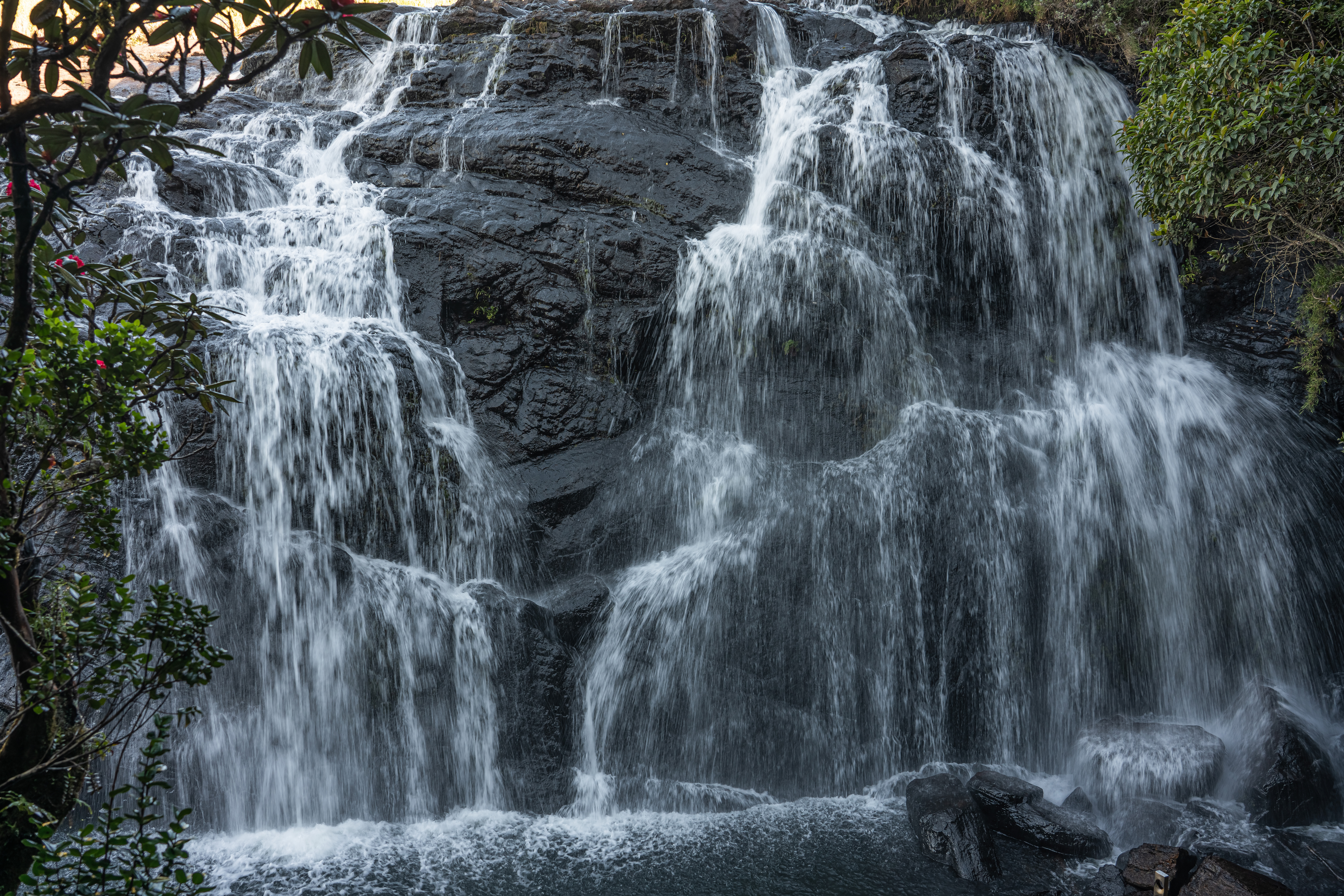 Baker's Falls in the Horton Plains National Park, Sri Lanka